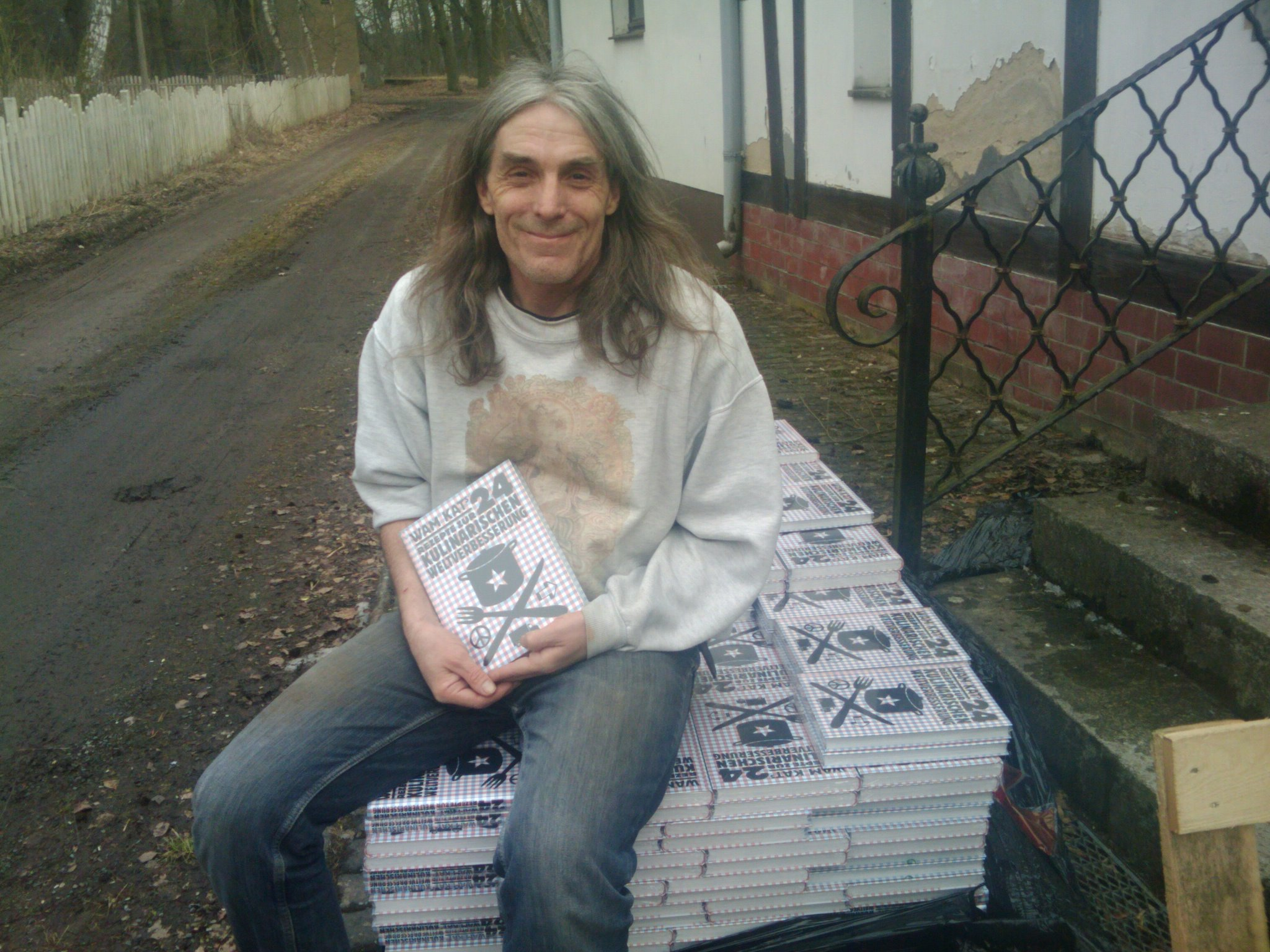 Dutch activist and author Wam Kat with his cook book on March 17, 2010 in Weitzgrund near Belzig, Germany.